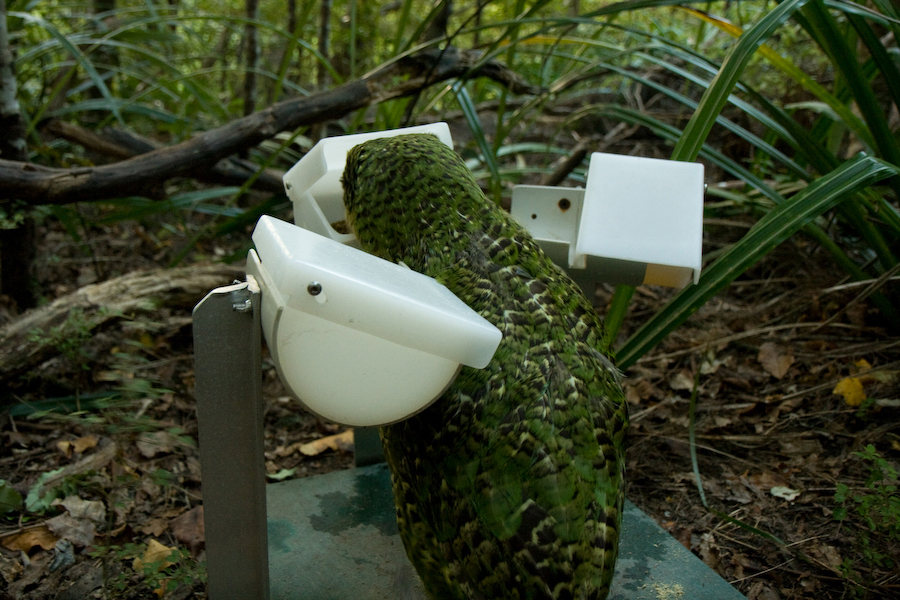 Codfish Island (NZ). Photo: Josie Beruldsen, 2008.